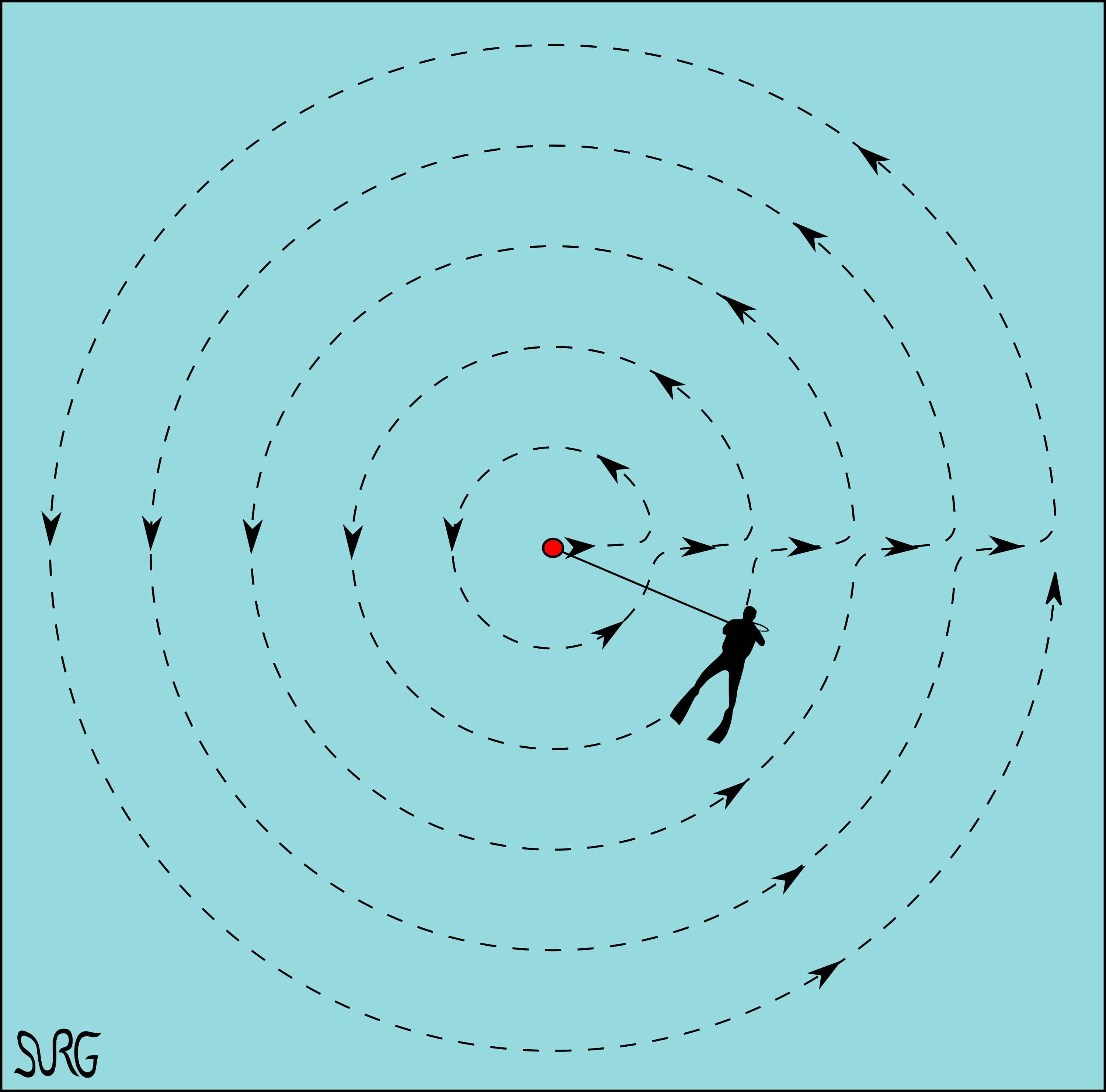 Illustration of underwater circular search pattern for solo scuba diver